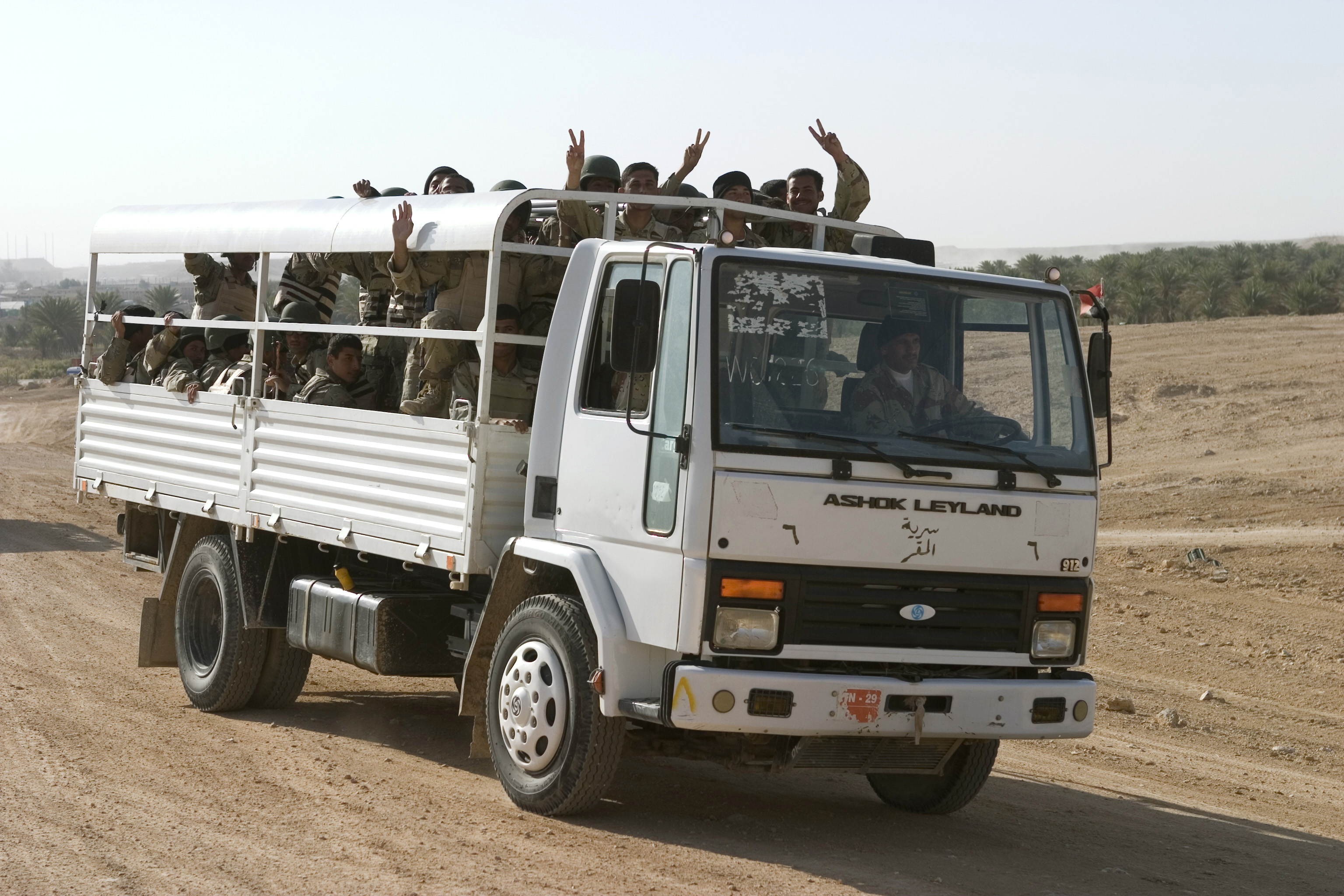 Iraqi army soldiers with 2nd Brigade, 7th Iraqi Army Division convoy to a fire and maneuver range before shooting Pulemyot Kalashnikov machine guns at stationary targets during weapons training at the Iraqi School of Infantry on Camp Yassir, Iraq.